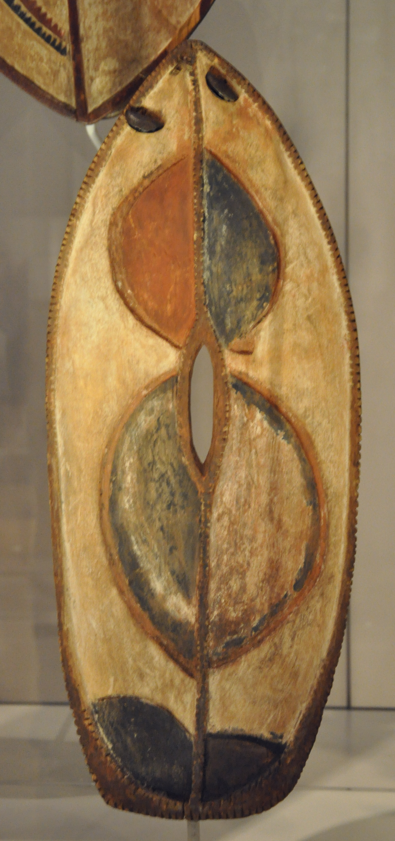 British Museum referenceAf1910,0604.72Detailed descriptionDance shield (ndomi), Kikuyu people, Kenya, early 20th centuryLocationRoom 25